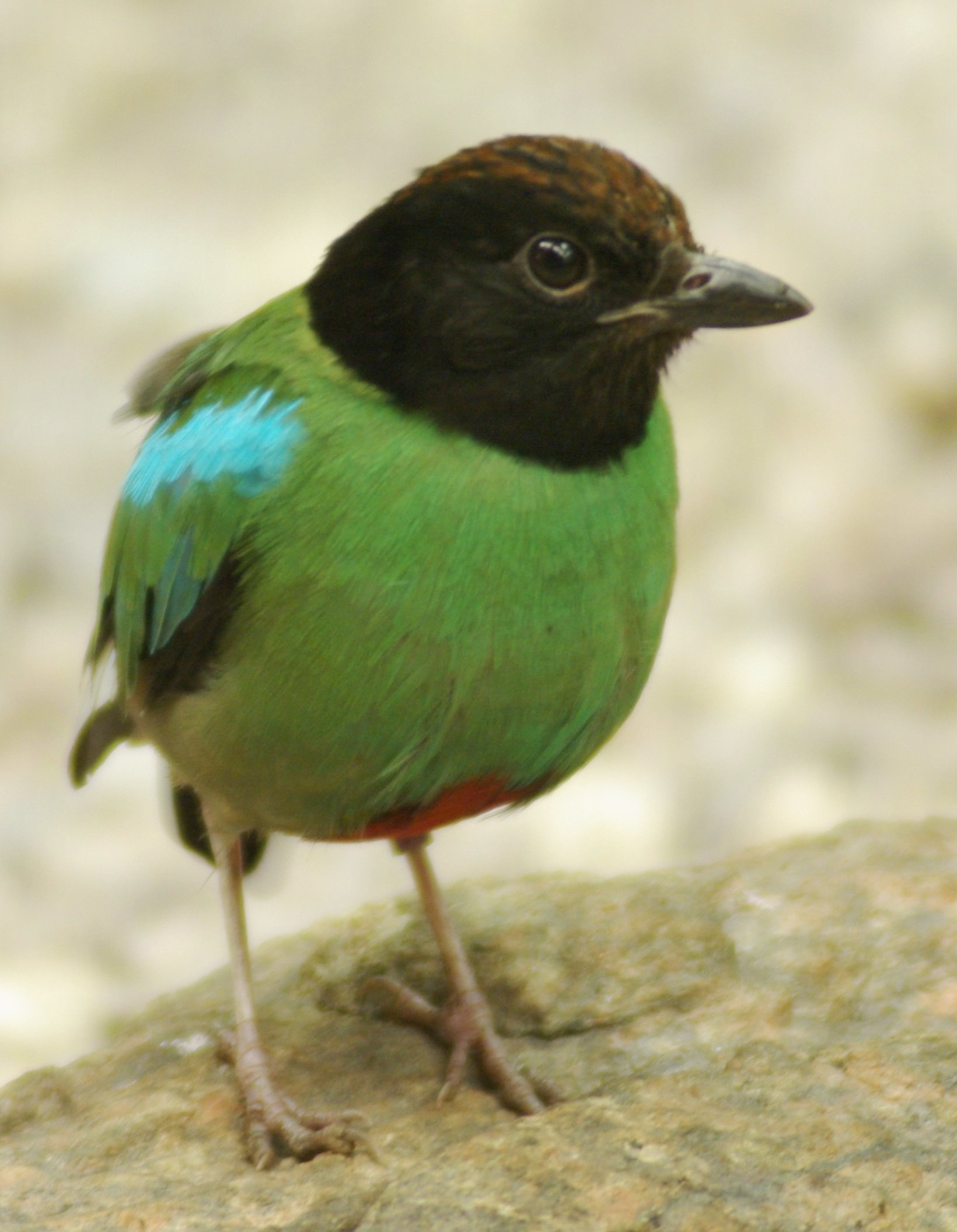 Hooded Pitta (Pitta sordida), National Zoo, Washington DC